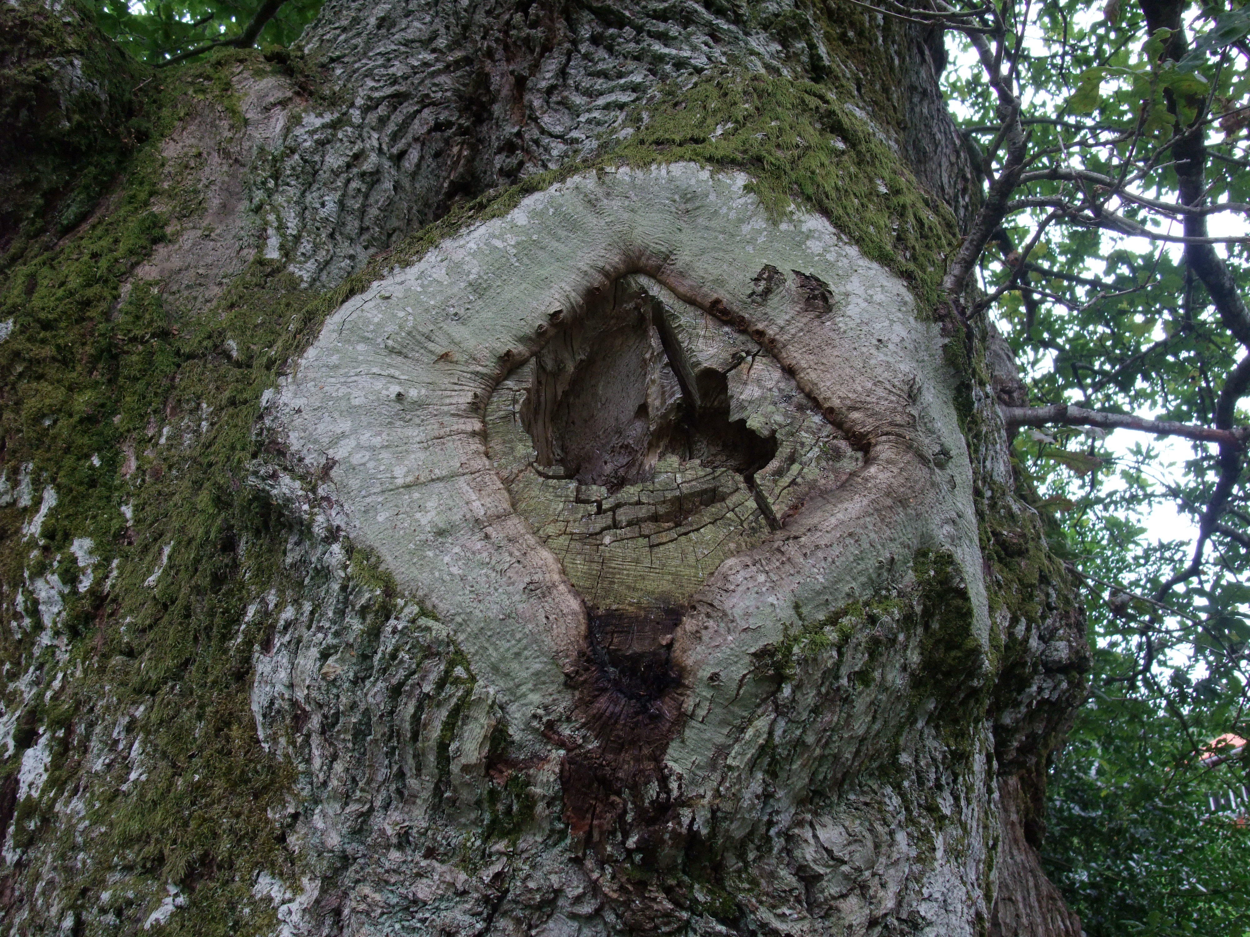 Damage by "Laetiporus sulphureus" - Oak tree